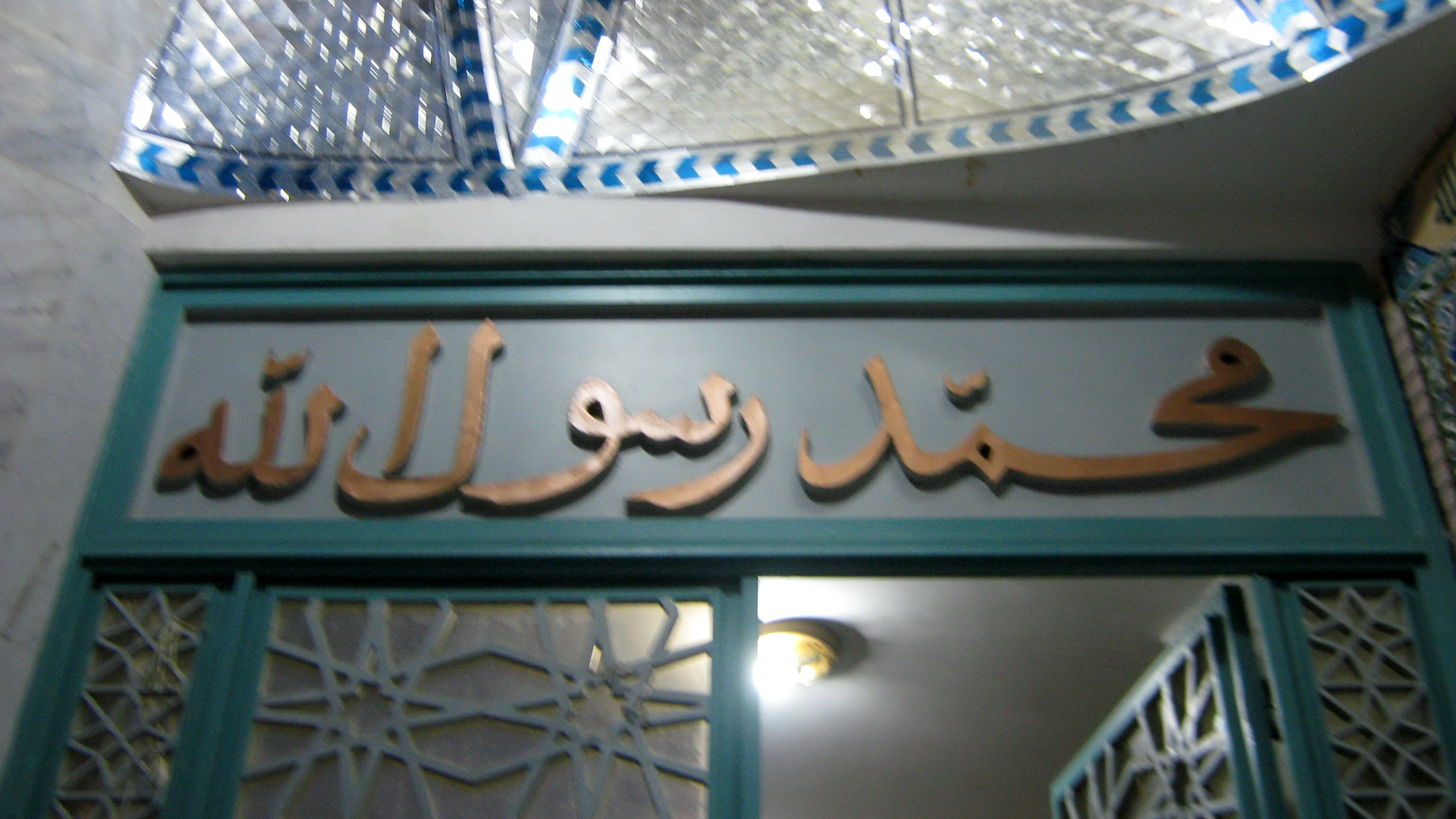 Mohammad Rasul ul-allah Mosque - Nishapur